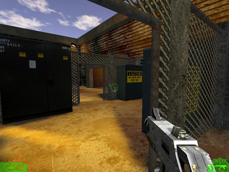 A screen shot from the game 'The Depot' running on the Retribution Engine. Created by A.P.Gardner. To be included in the article titled 'Retribution Engine'.